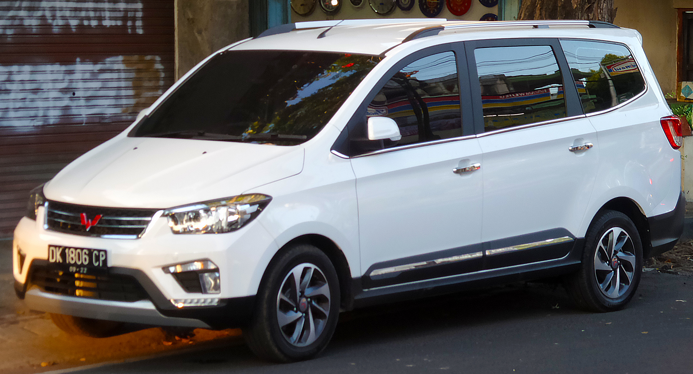 Wuling Confero, or Wuling Hong Guang in Mainland China, in Denpasar, Bali.